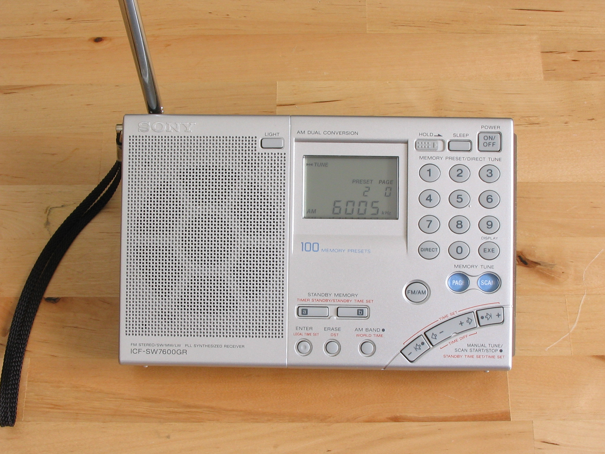 SONY World Band Receiver ICF-SW7600GR